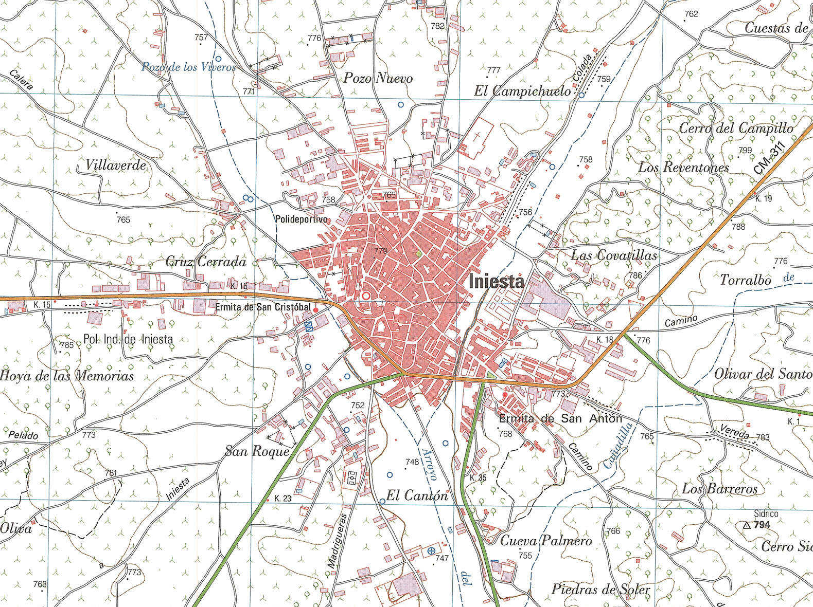 Fragment 0718c1 of the National Topographic Map of Spain in 2011 at a scale of 1:25000 printed and scanned with a resolution of 250 ppi. It shows Iniesta.